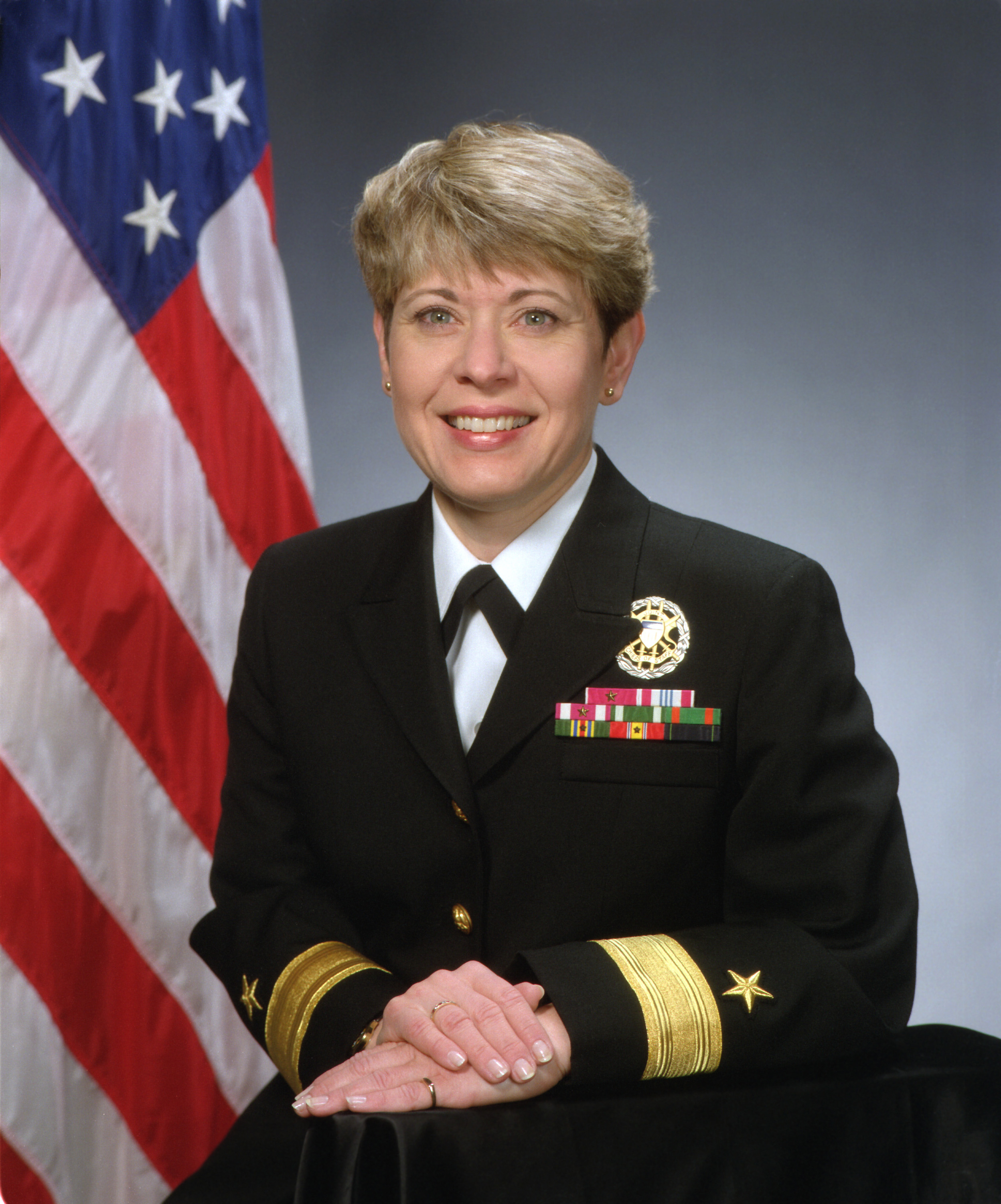 Rear Adm. (lower half) Veronica Z. “Ronne” Froman